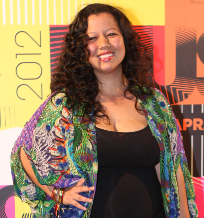 Mahalia Barnes at the APRA Music Awards of 2012, held at the Sydney Entertainment and Exhibition Centre on 28 May 2012.